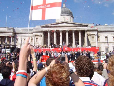 Picture taken from Trafalgar Square on 13/09/2005